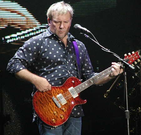 Alex Lifeson, guitarist for Rush, in concert in Milan, Italy.